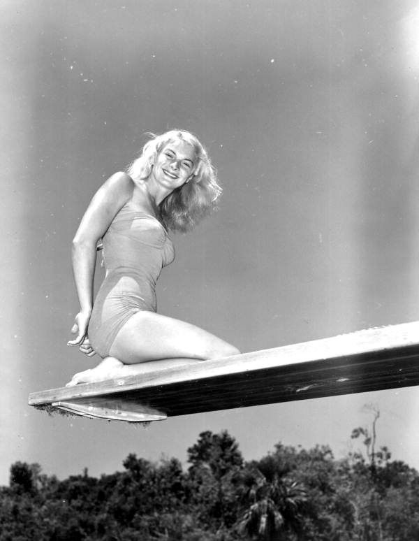 Portrait of Ginger Stanley kneeling on a diving board : Weeki Wachee Springs, Florida. She would go on to do stunts for "Creature of the Black Lagoon" and "Revenge of the Creature" movies. Ms Stanley was born in Sandersville, Georgia on December 19, 1931